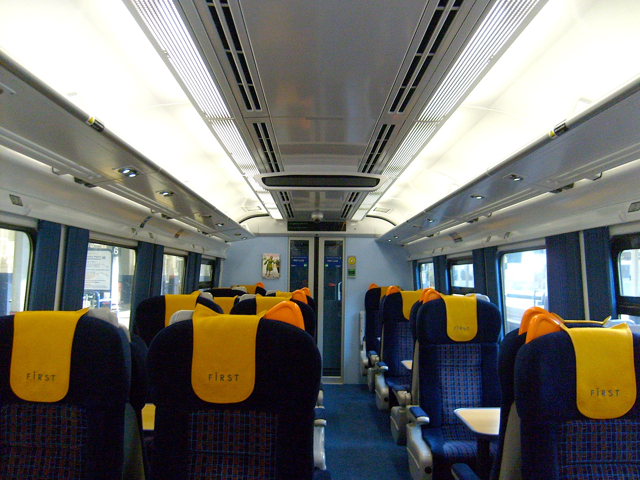 The latest refurbished First Class interior.